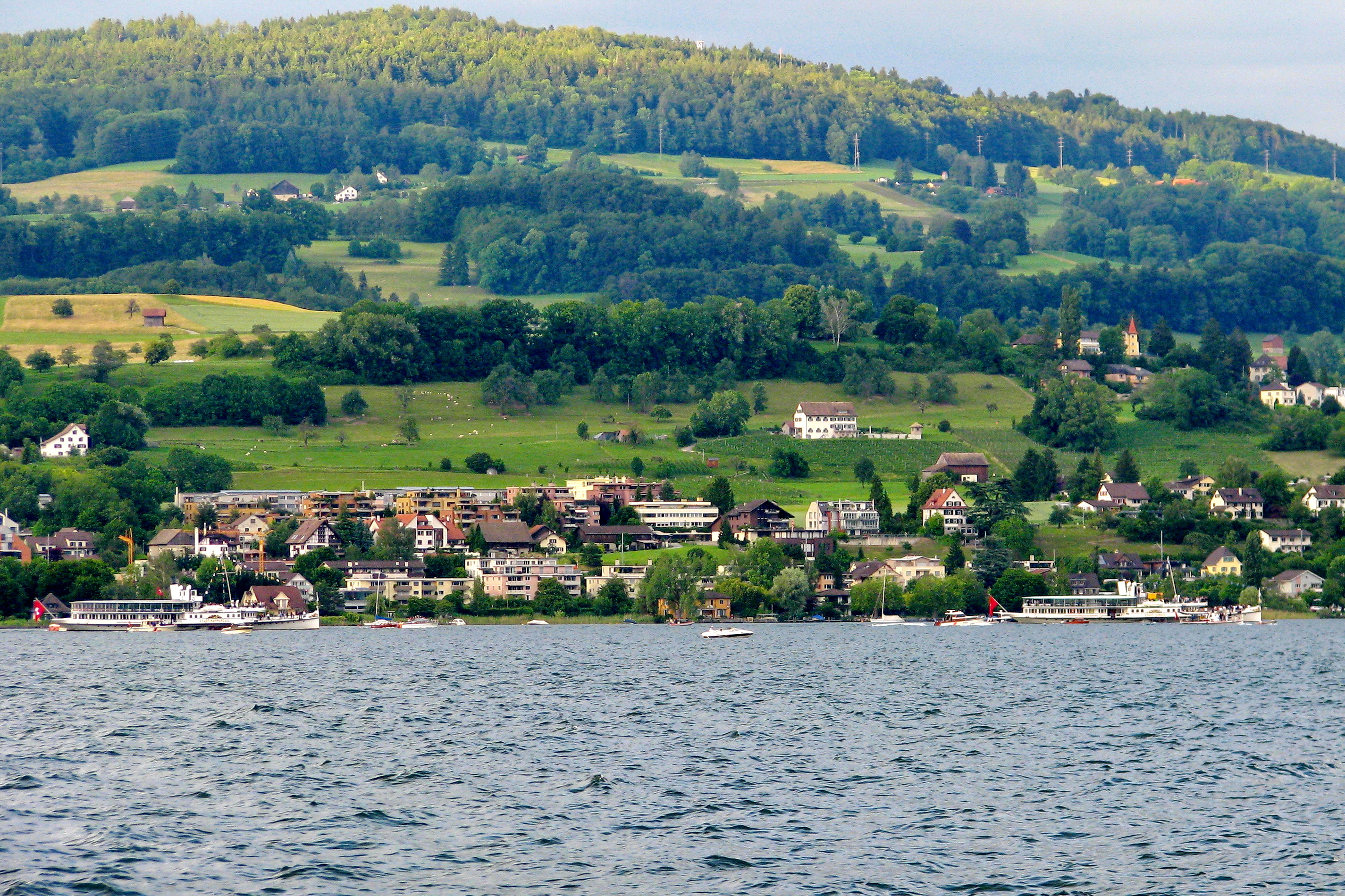 Centennial celebration tour («Stadt Zürich») of the Zürichsee-Schifffahrtsgesellschaft (ZSG) paddle steamers «Stadt Zürich» (to the left) and «Stadt Rapperswil» on Zürichsee, Pfannenstiel mountain in the background.